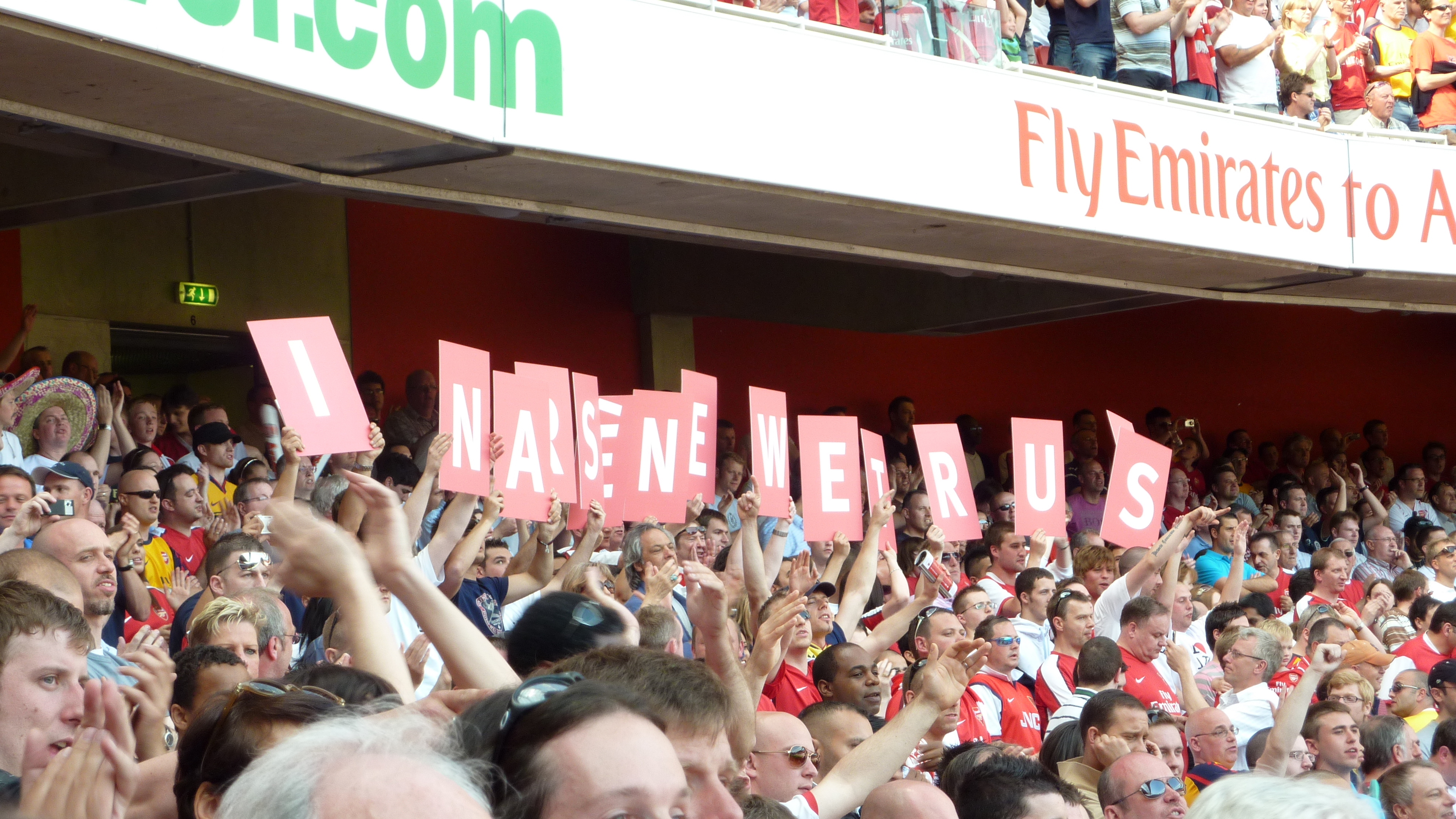 Arsenal supporters hold up cards that spell out "IN ARSENE WE TRUST" in support of manager Arsene Wenger at Emirates Stadium